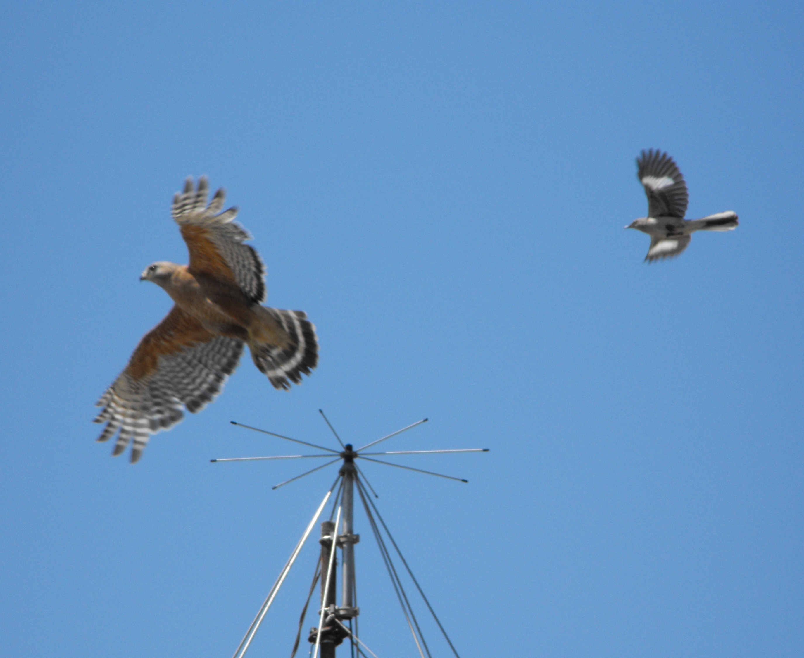 Red-shouldered Hawk (Buteo lineatus) being attacked by Northern Mockingbird (Mimus polyglottos), Lemon Grove, California, USA.